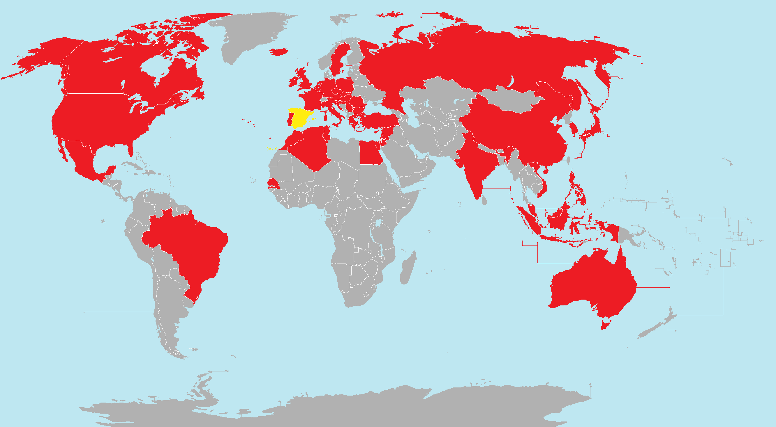 Map of the headquarters for the Cervantes Institute worldwide